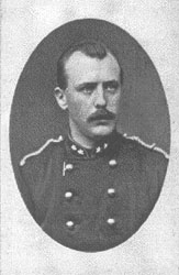 Gijsbertus Koolemans Beijnen